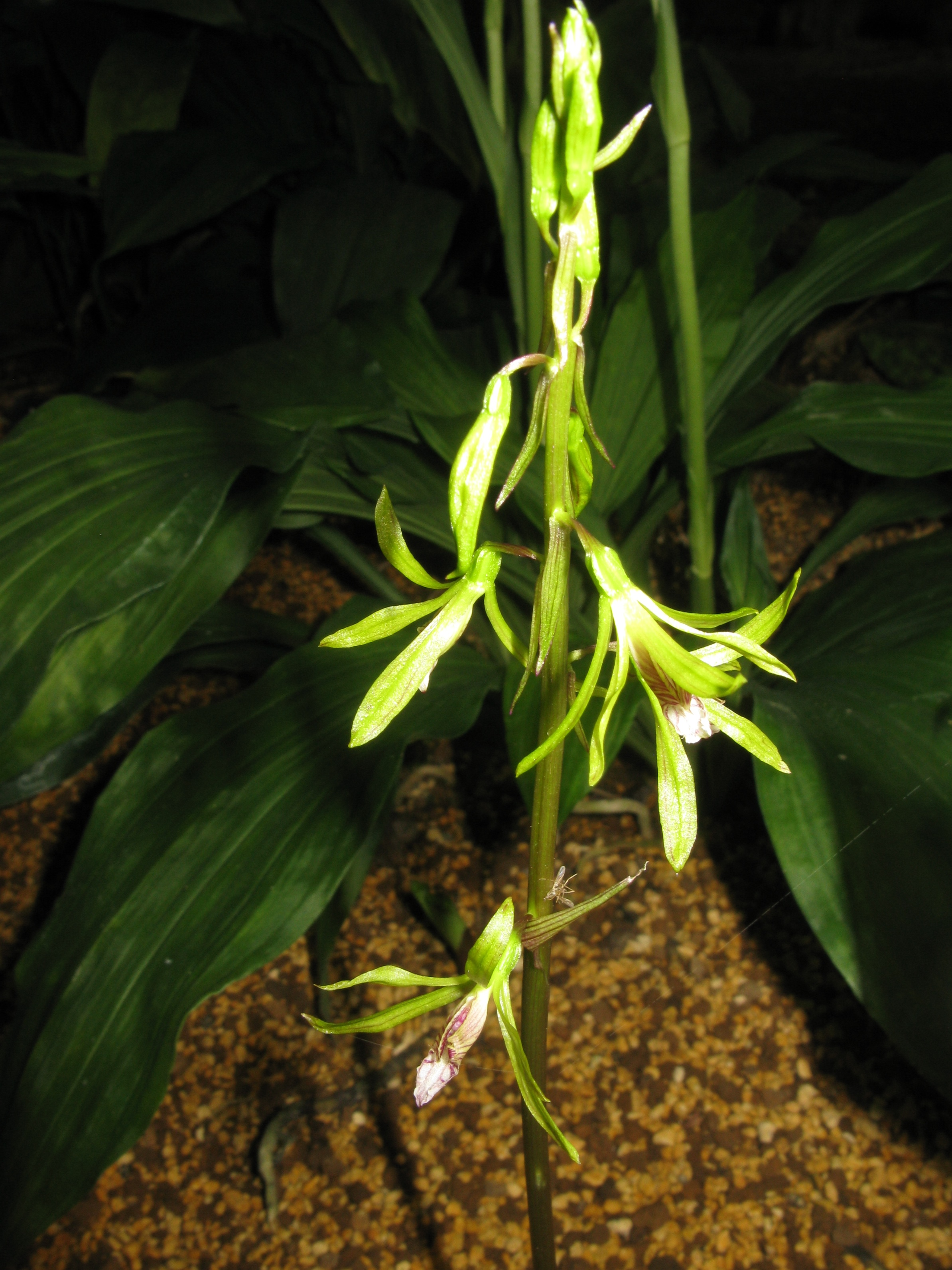 Nervilia aragoana, Tsukuba Botanical Garden, Ibaraki pref., Japan